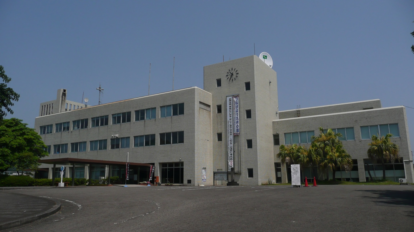 Kushima City Office (Miyazaki, Japan)